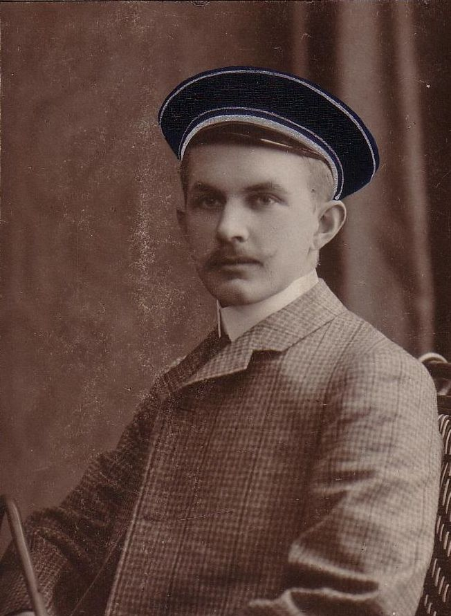 Photography of Fritz Mussehl